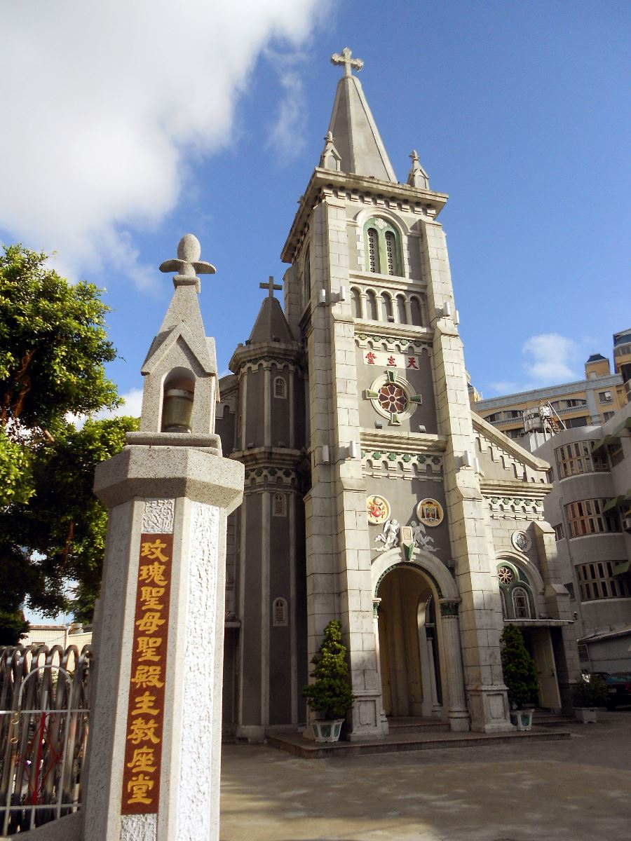 Holy Rosary Cathedral, Kaohsiung